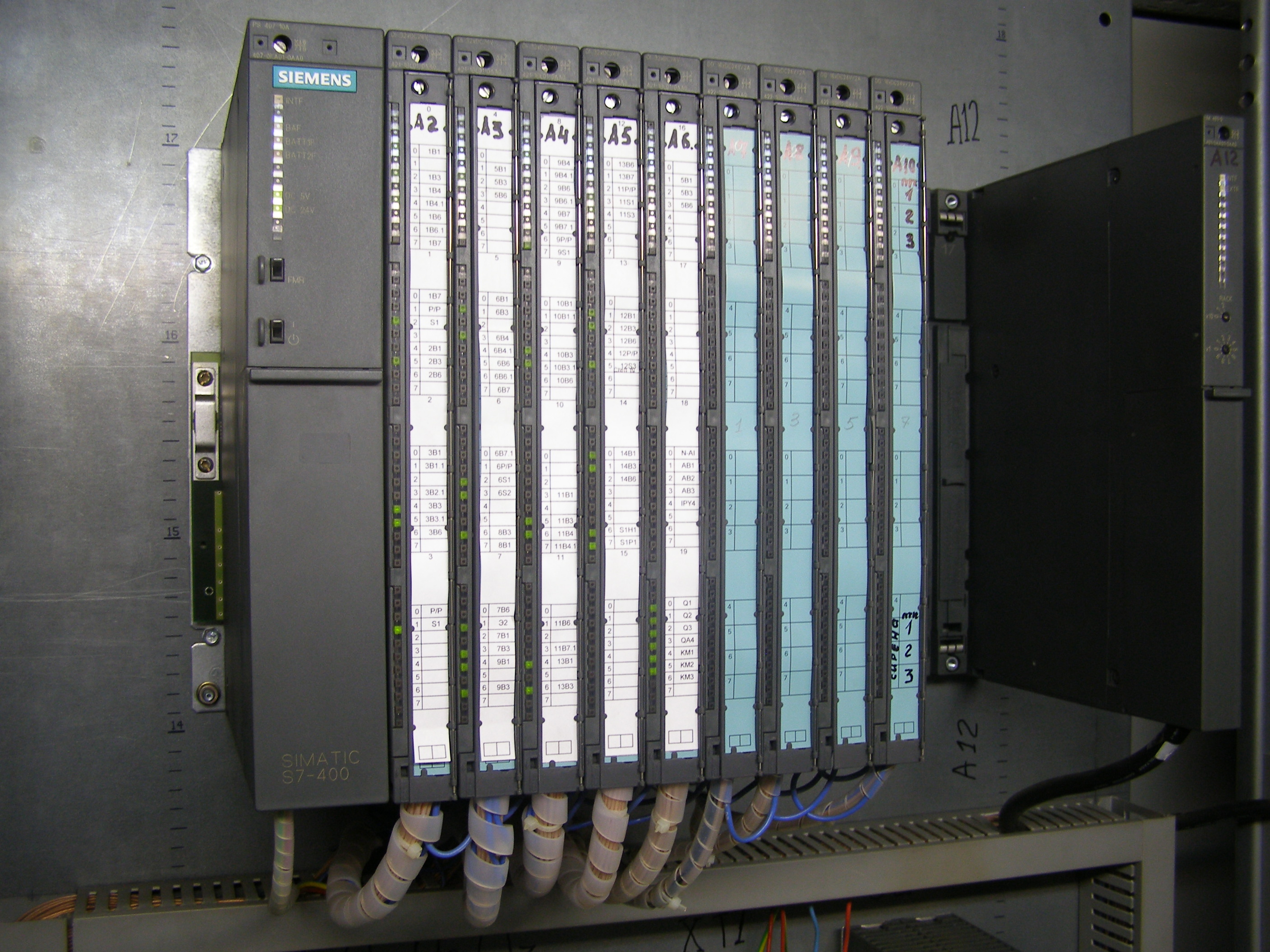 Siemens S7-400